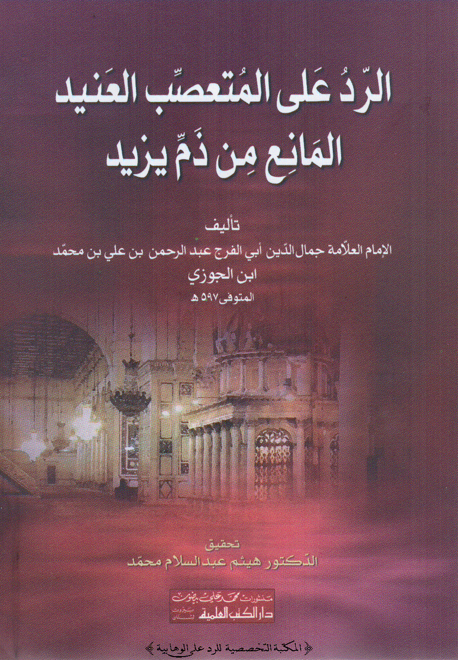 Front cover of the book Al-Radd ‘Ala al-Muta’assib al-‘Anid by Abu'l-Faraj ibn al-Jawzi.